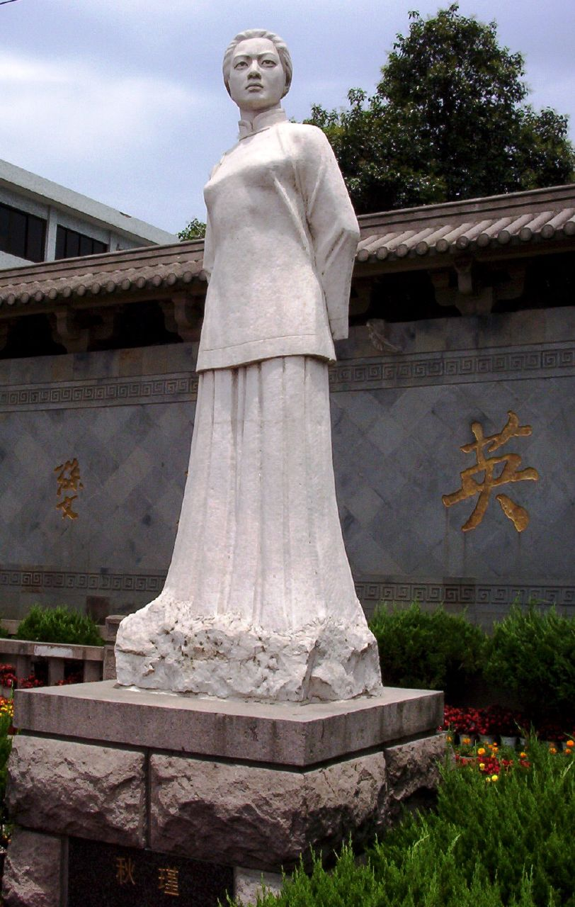 Qiu Jin Feminist revolutionary statue